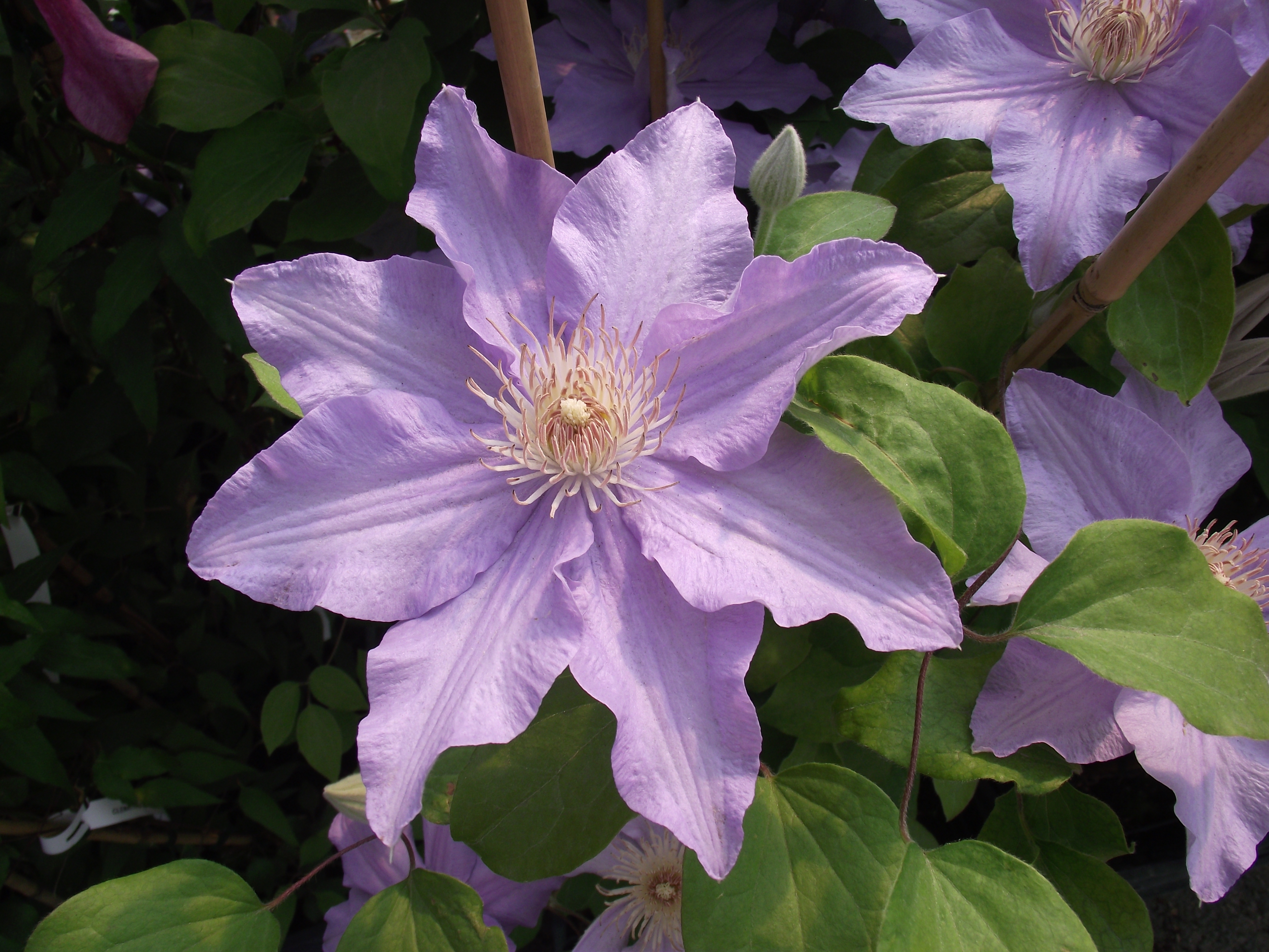 Clematis Angelique Evipo017